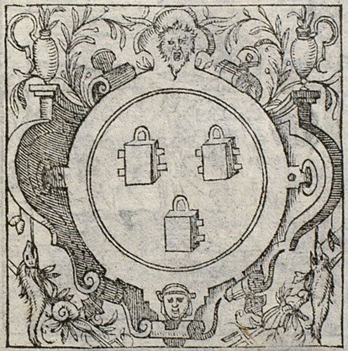 Coat of arms of Cornelis Suys, golden rammers on a azure background